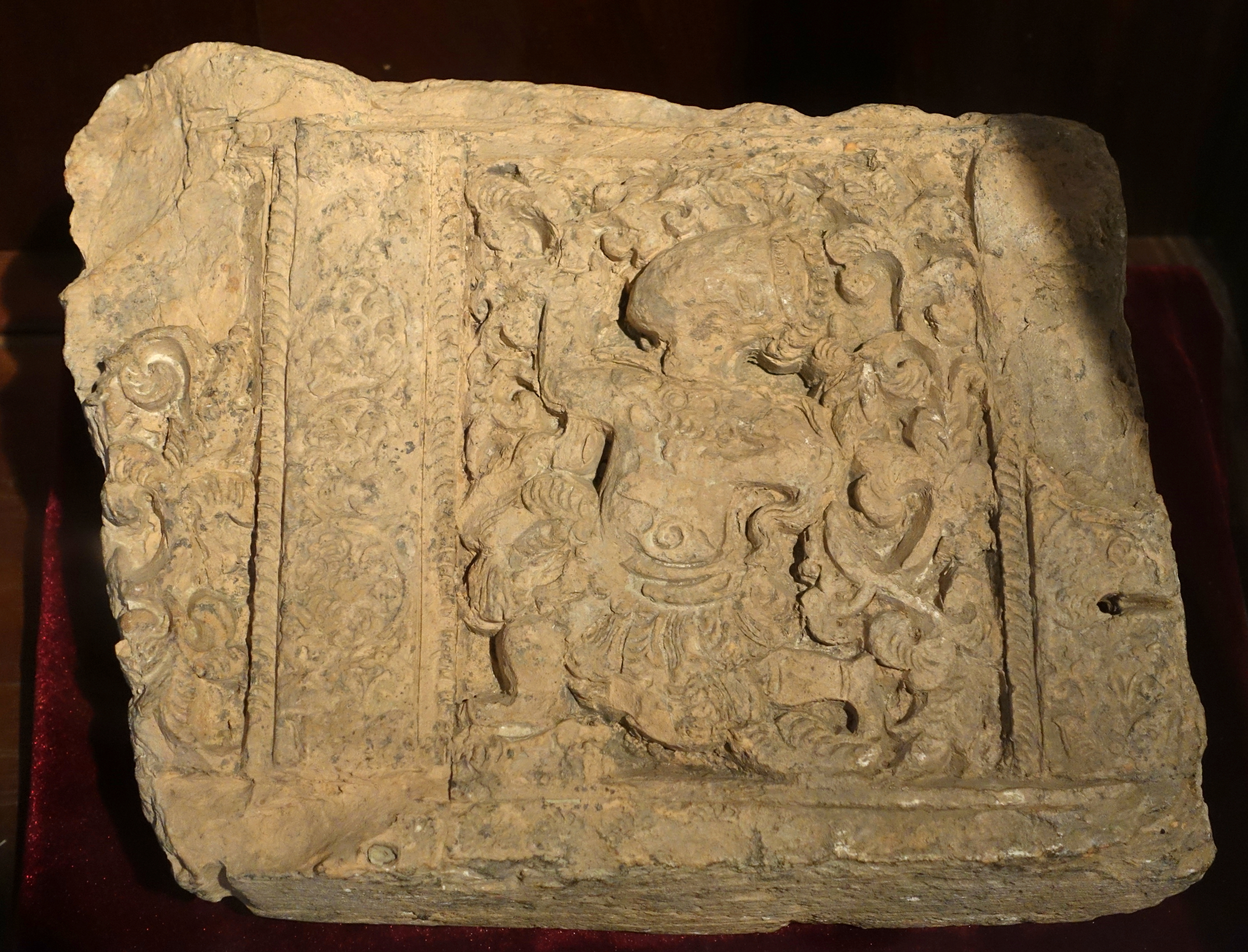 Exhibit in the Vietnam National Museum of Fine Arts - Hanoi, Vietnam. This artwork is old enough so that it is in the public domain.